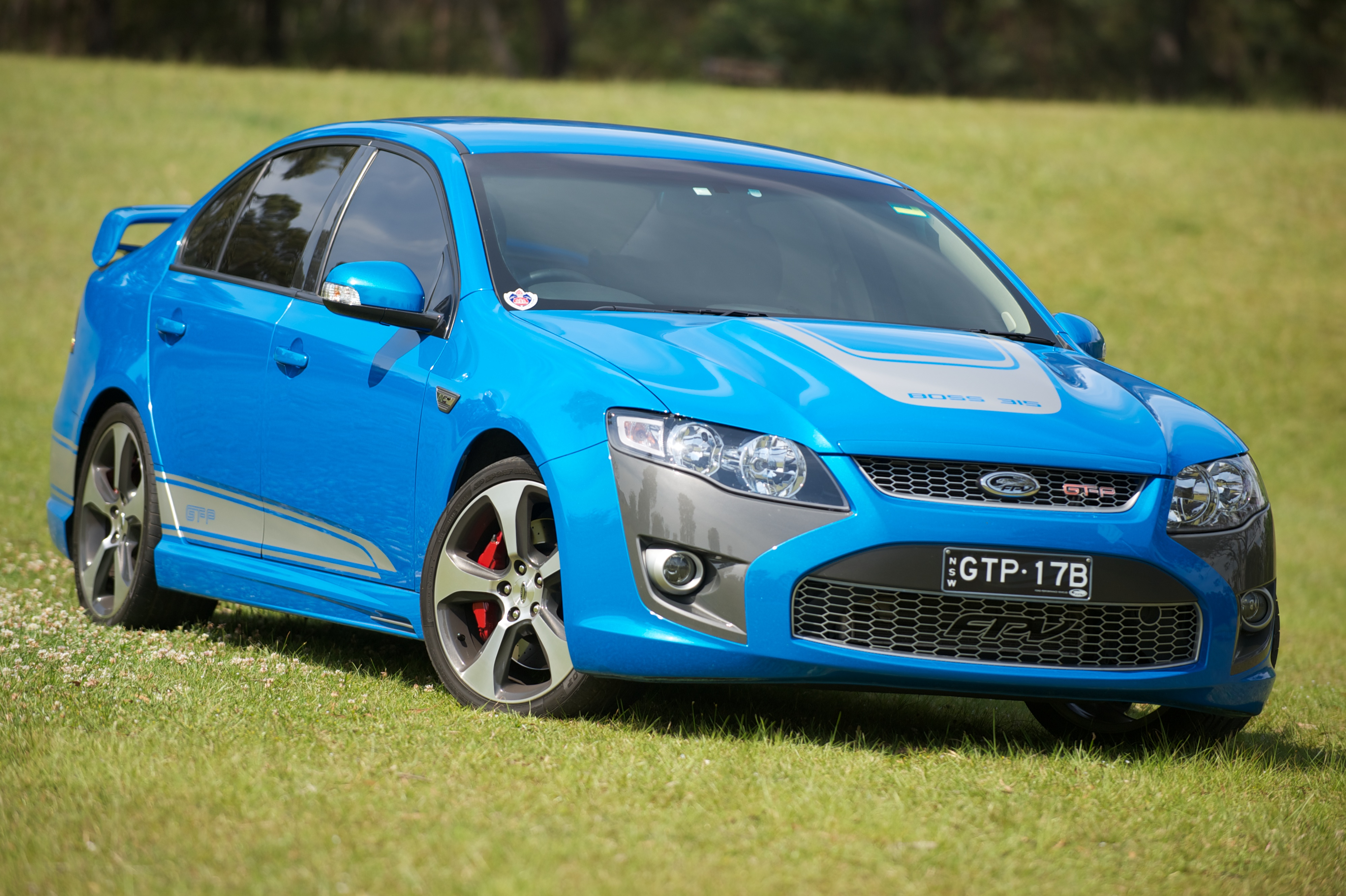 Front 3/4 view of a 2008 Ford Performance Vehicles GT-P, in Nitro blue